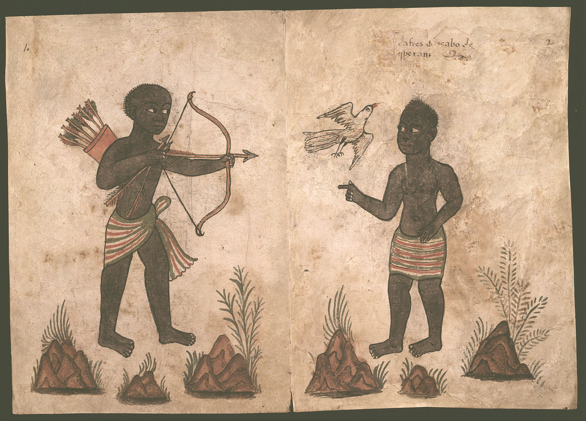 An anonymous 16th century Portuguese watercolour from the Códice Casanatense, depicting the nomadic inhabitants of southern Africa, dubbed by the Portuguese "cafres", from the Arabic "kaffirs" (meaning "non-believer"). The inscription reads: "Cafres of the Cape of Good Hope"